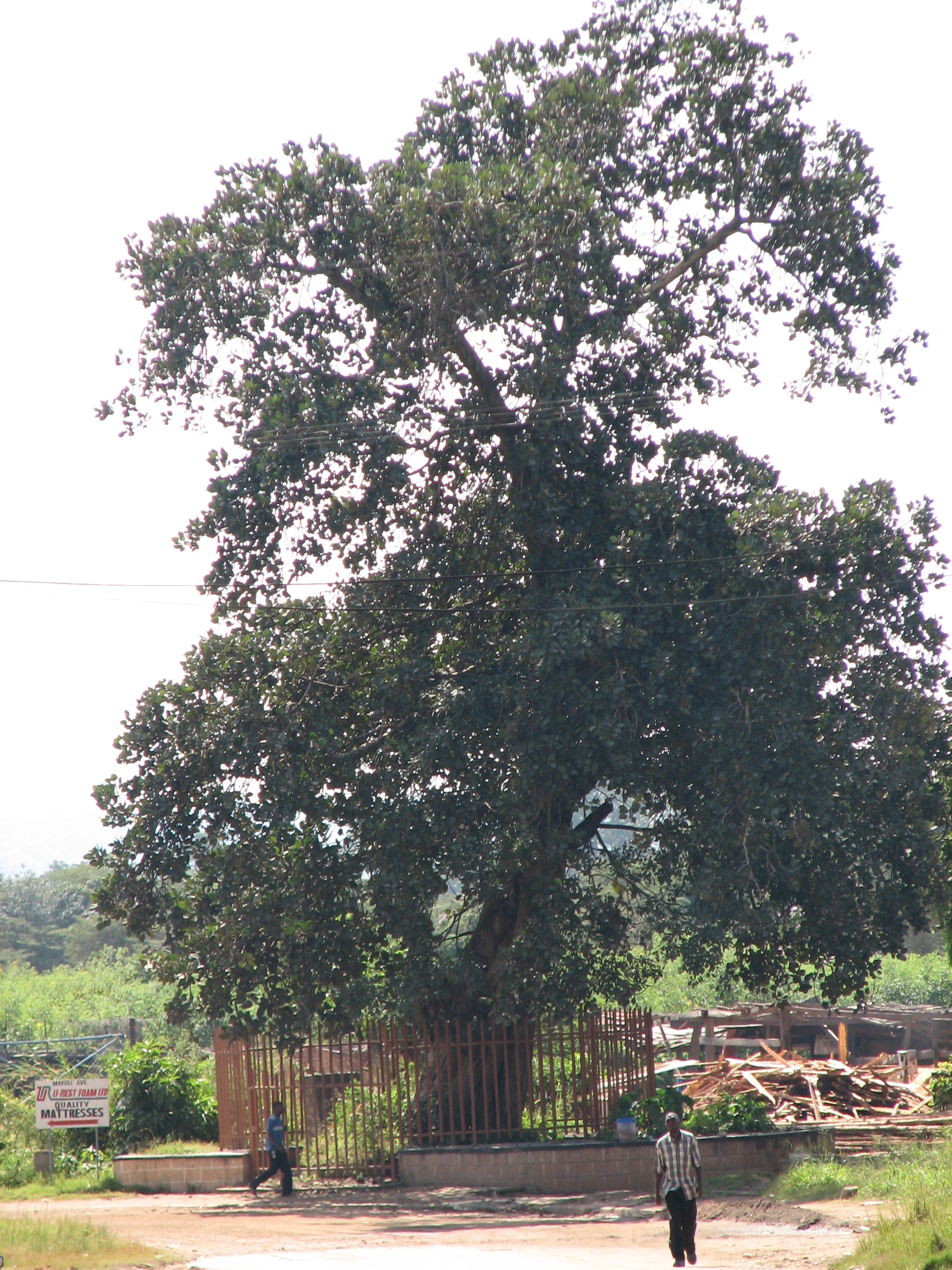 Tree in Zambia